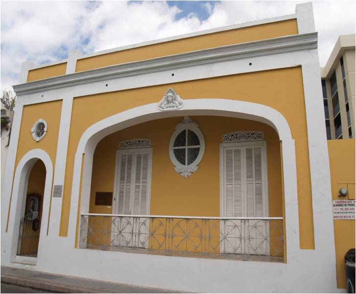 Casa Paoli — at 14 Mayor Street, within the Ponce Historic Zone, in Ponce, Puerto Rico. The 1870s house with a 1910s Neoclassical facade, is a present day history museum, and is on the National Register of Historic Places in Ponce, Puerto Rico. Credits Photo is of main facade, taken on July 22, 2009 by Juan Llanes Santos of the Puerto Rico State Historic Preservation Office. Please acknowledge author name and agency in any use.